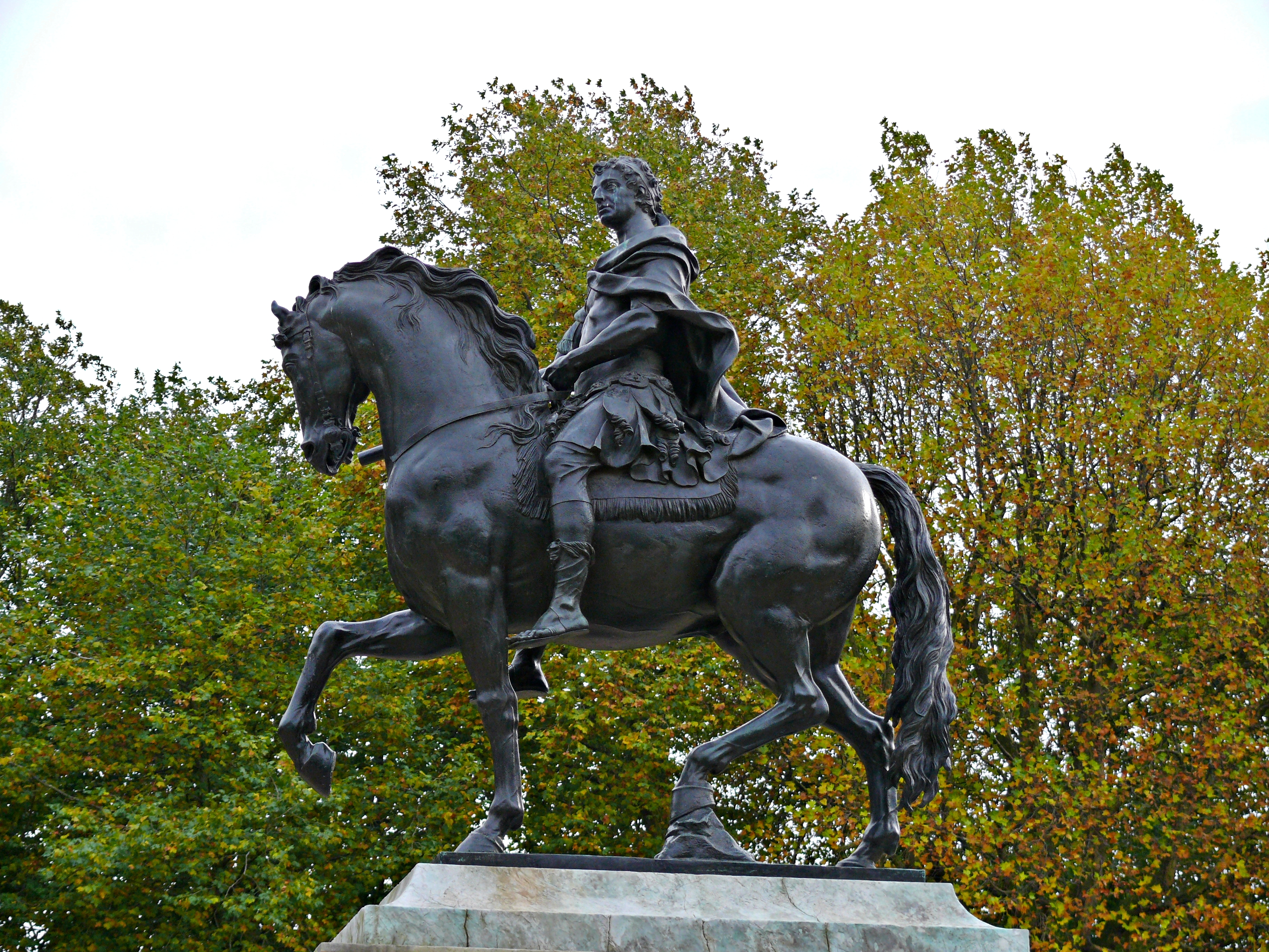 Equestrian statue of William III, Bristol, England, UK. An idealized William III by John Michael Rysbrack erected in Queen Square, Bristol in 1736.